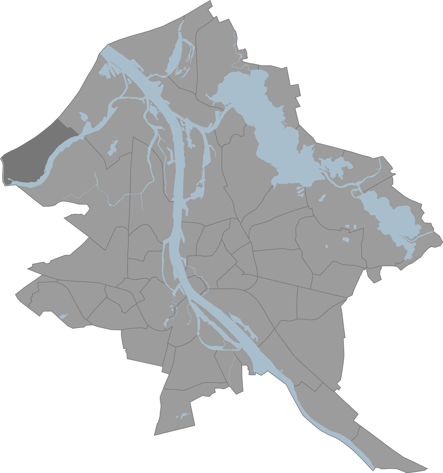 A map of Riga, Latvia with the eponymous commune highlighted